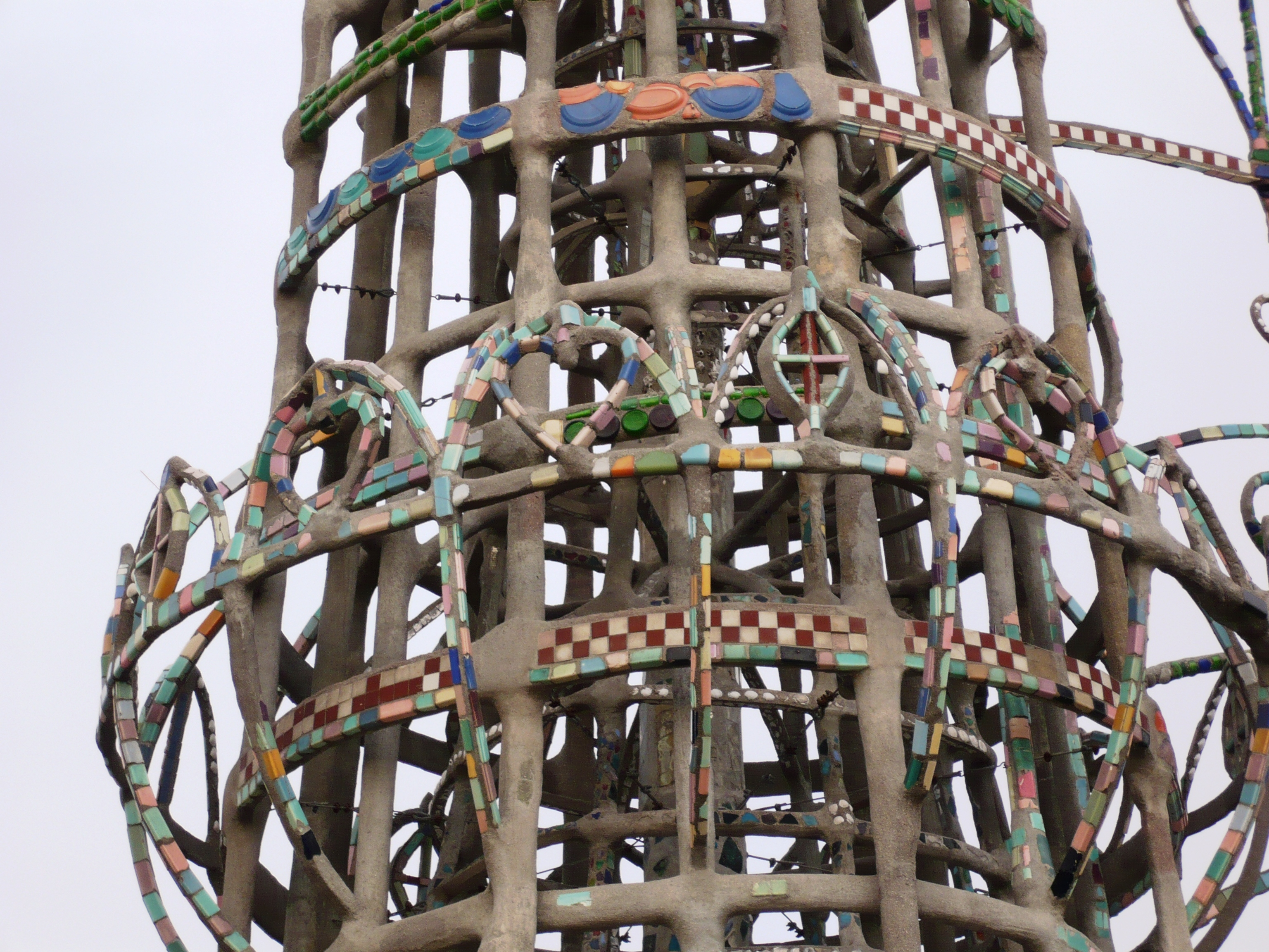 Watts Towers